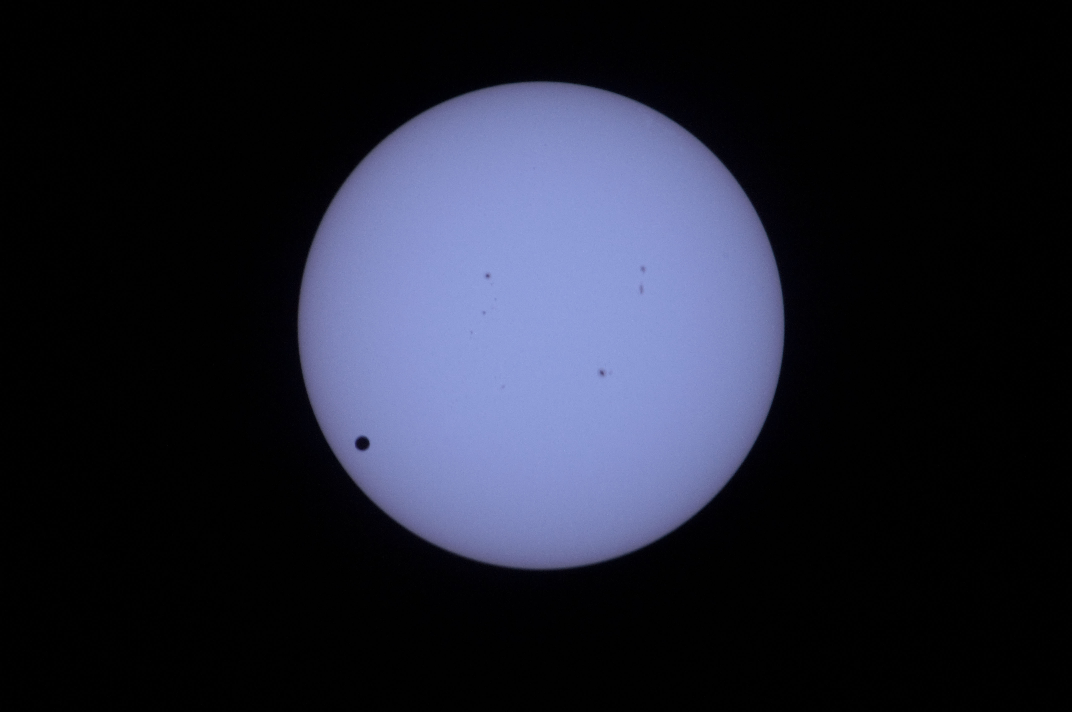 Earth's planetary neighbor Venus passes across the face of the sun on June 5, 2012, seen here from the International Space Station. Expedition 31 crew members aboard the orbital outpost had cameras set up in several locations to record the rare event.